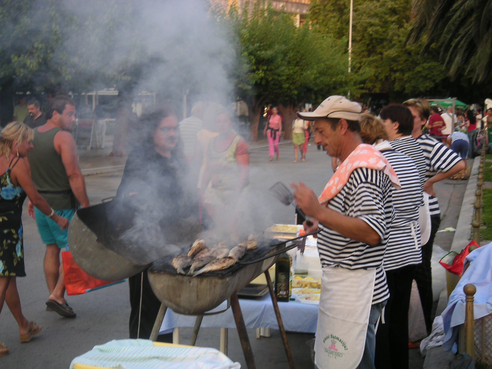 Makarska food festival. Local fisherman attracts the tourists to delicacies from the sea.